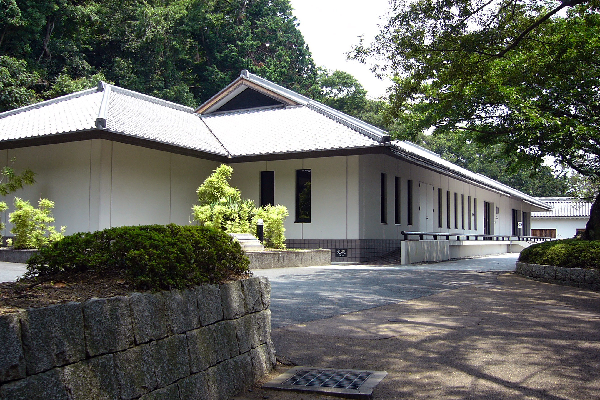 Tatsuno Municipal Museum of History & Culture in Tatsuno, Hyogo prefecture, Japan